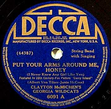 Put Your Arms Around Me, Honey by Clayton McMichen and his Georgia Wildcats, Decca [year unknown].